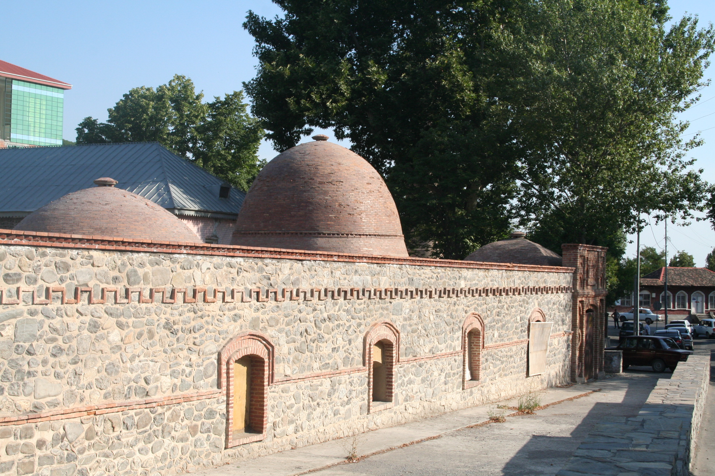 Underground Bath of Shaki